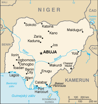 Map of Nigeria with Czech description.